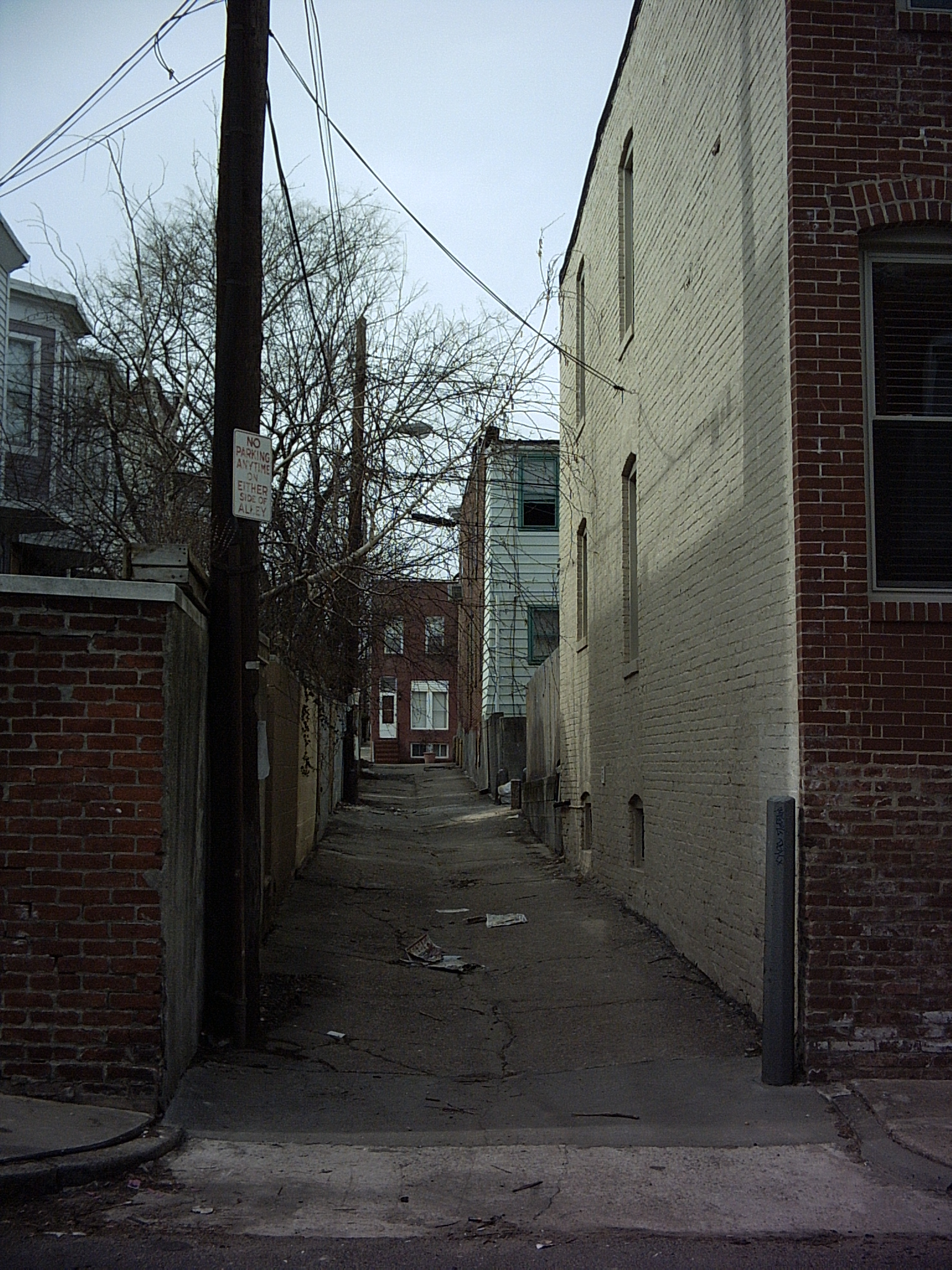 (Author: Kate Herrod, Director of Community Greens)